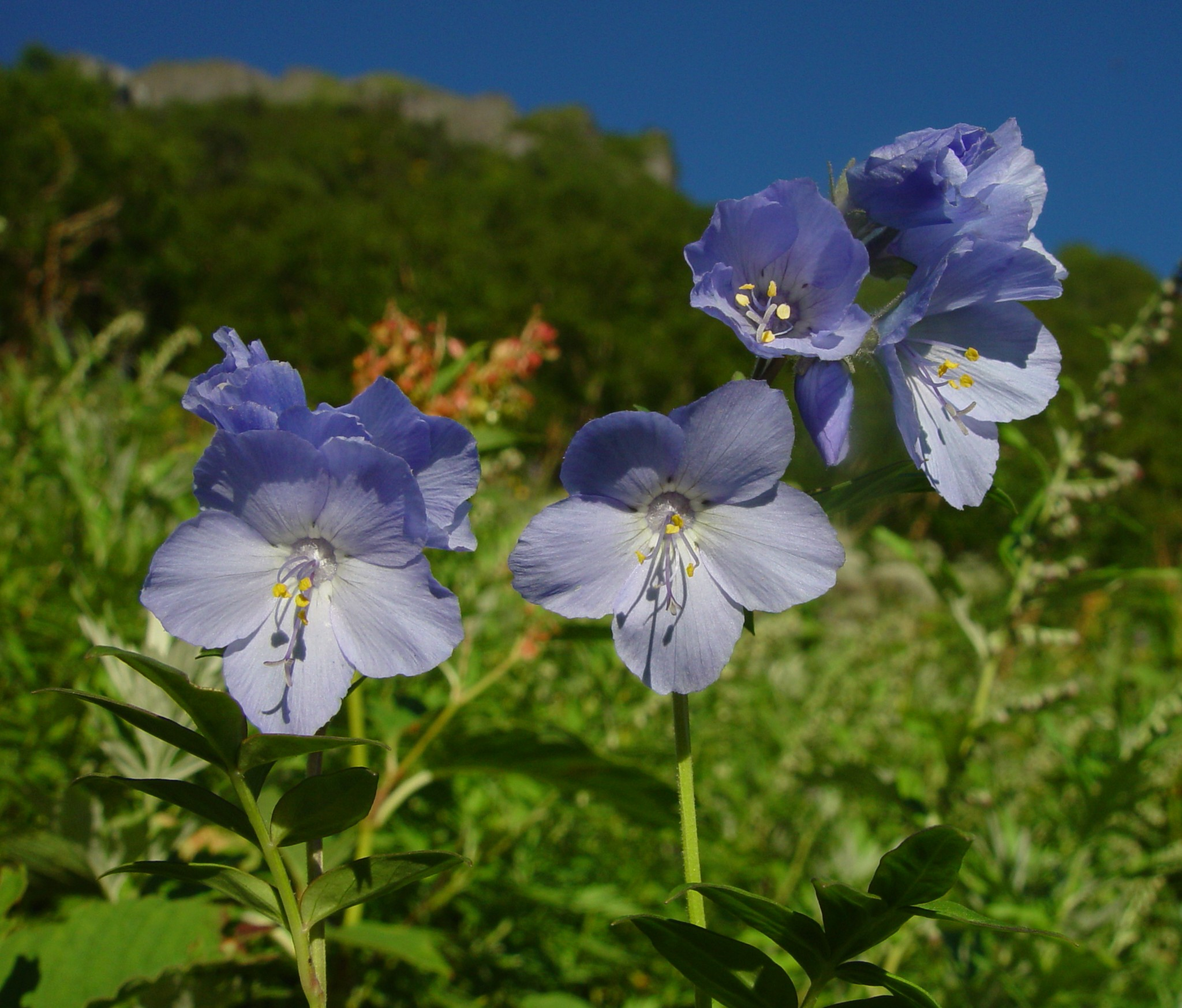 Polemonium caeruleum ssp. yezoense var. nipponicum in Mount Kita